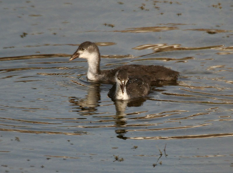 Common Coot Fulica atra in Hyderabad , India.